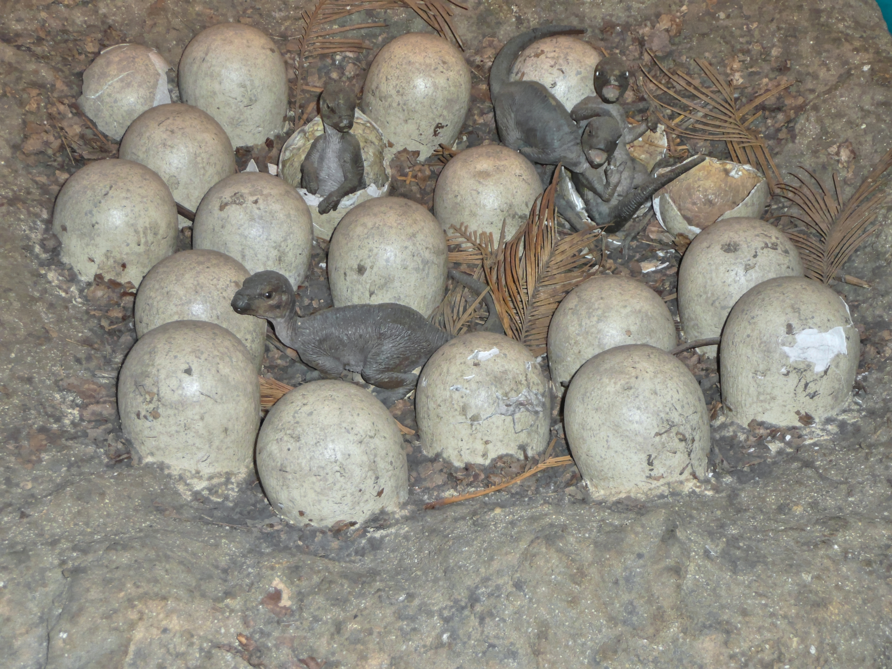 Dinosaur nest. Maiasaura nest restoration. Natural History Museum, London, Dinosaur Gallery